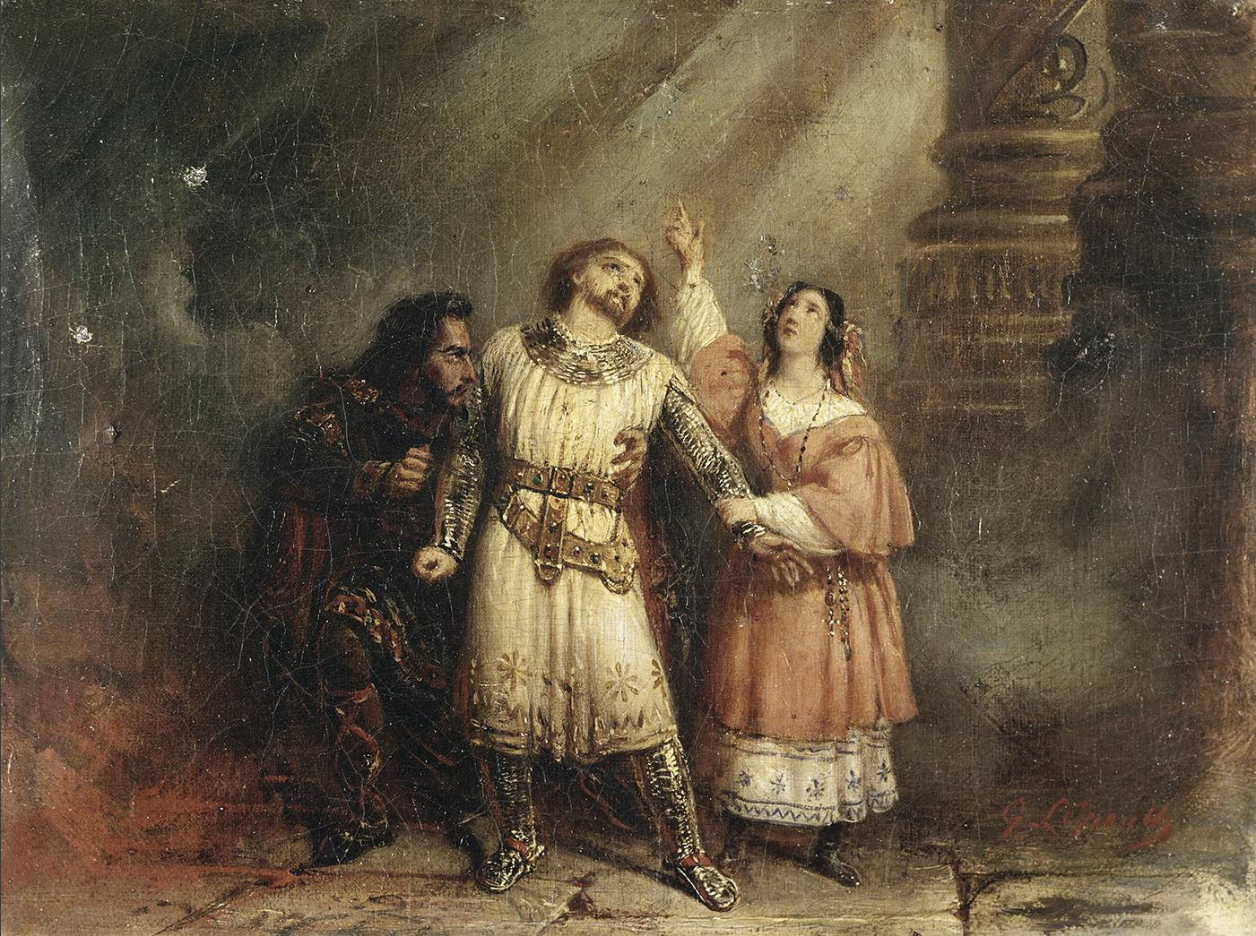 The trio in act 5 of Giacomo Meyerbeer's opera Robert le diable with the singers from the original production (21 November 1831). From left to right: Nicolas Levasseur as Bertram, Adolphe Nourrit as Robert, and Julie Dorus-Gras as Alice